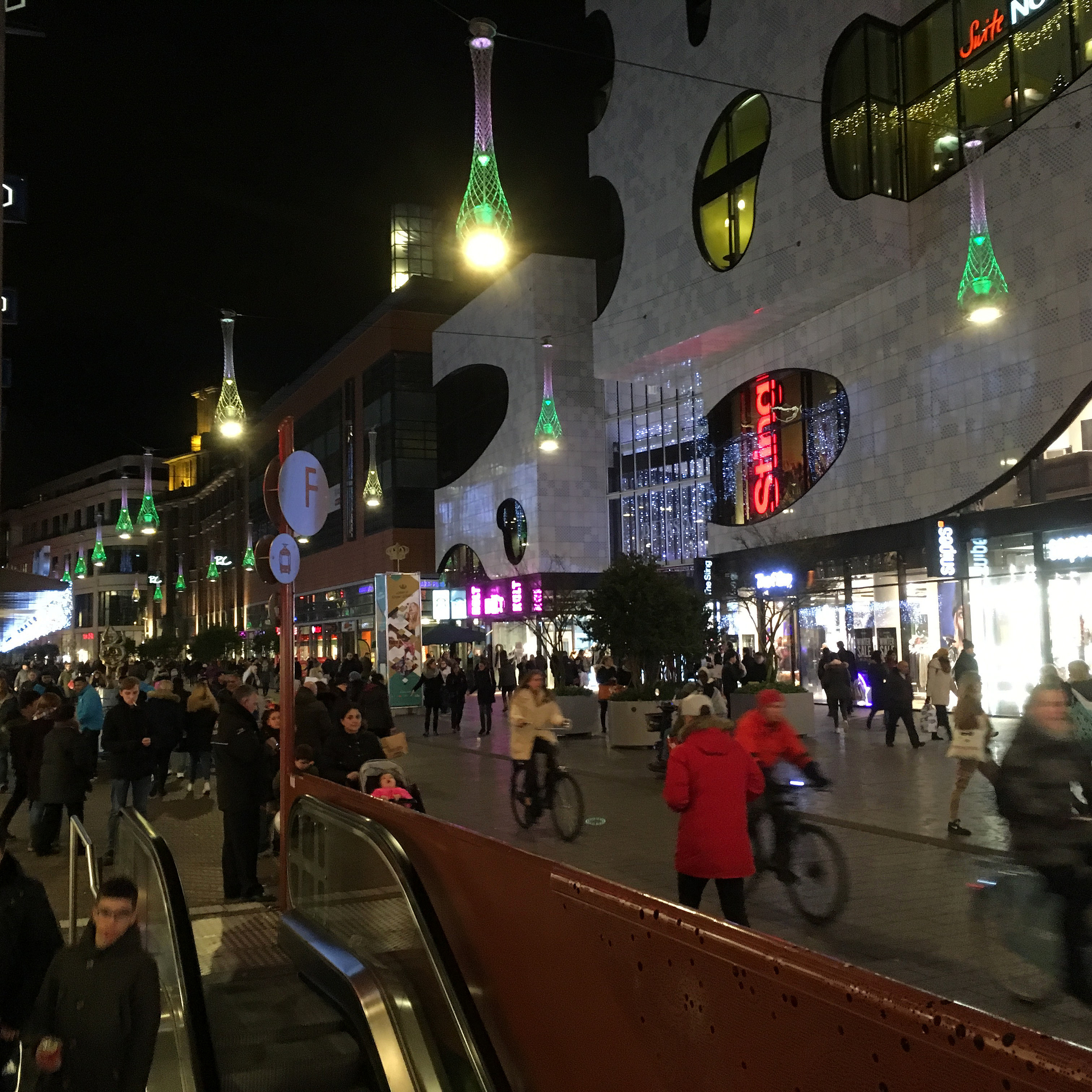 Grote Marktstraat, an main shopping street in the city center of The Hague, December 2017, with Christmas decorations, in the evening.